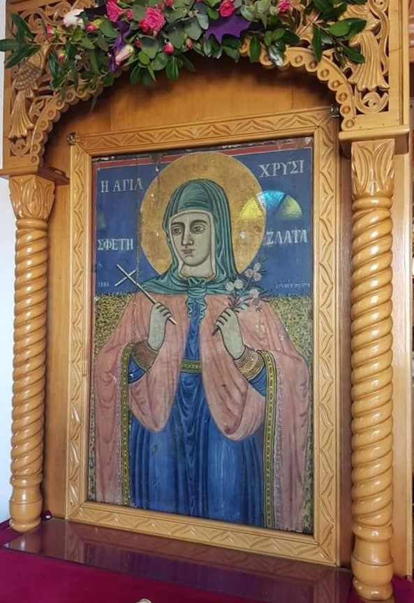 Icon of St. Zlata of Meglen in Chrysi, Pella